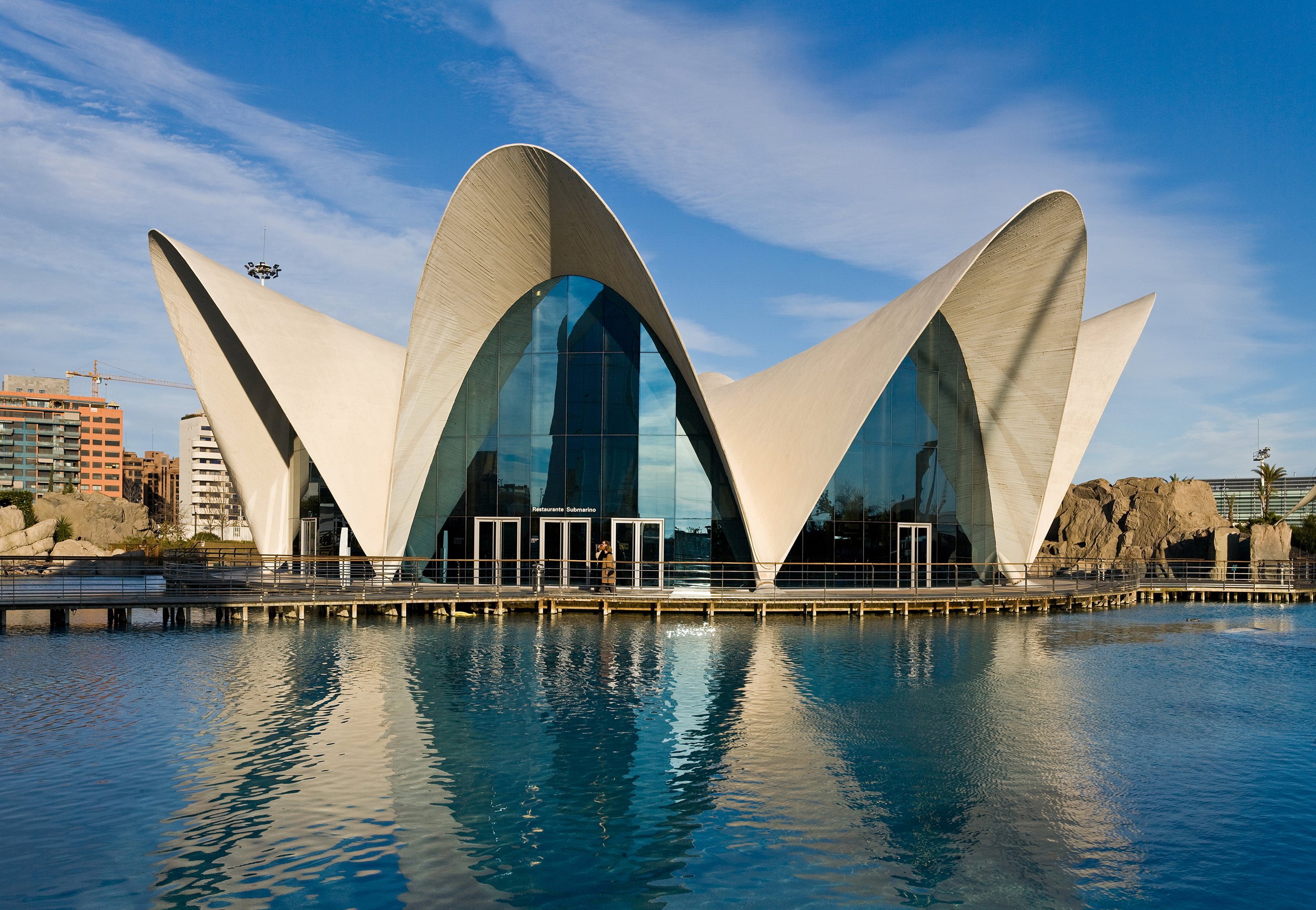 The restaurant of L'Oceanografic in Valencia, Spain as viewed from across the water.